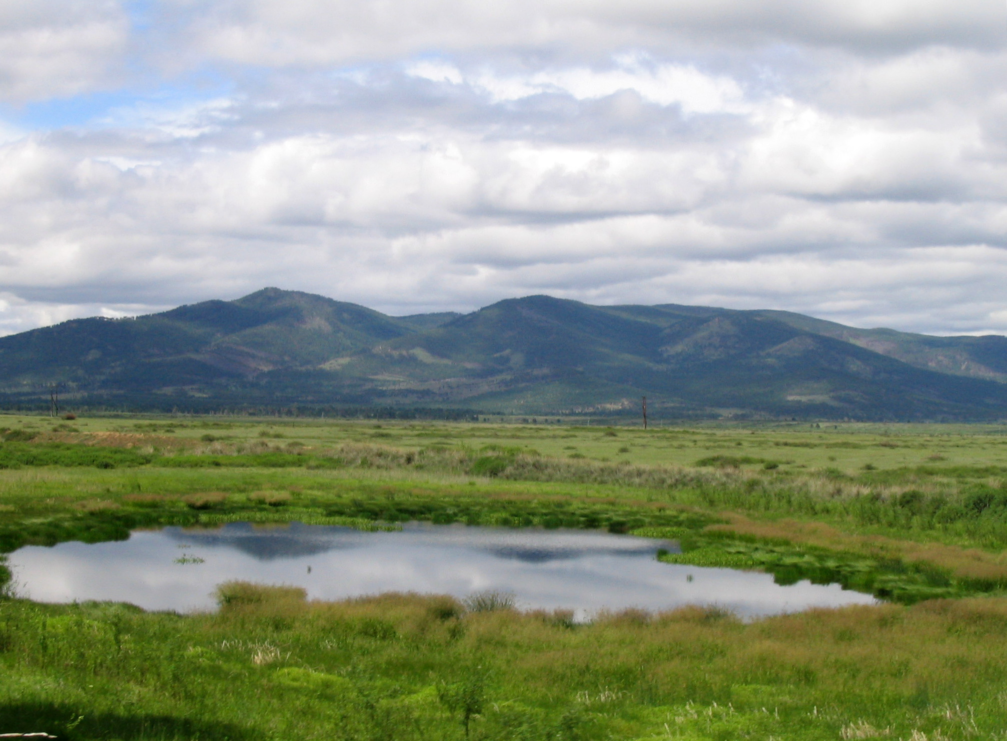 Buryatia countryside just south of Ulan Ude.